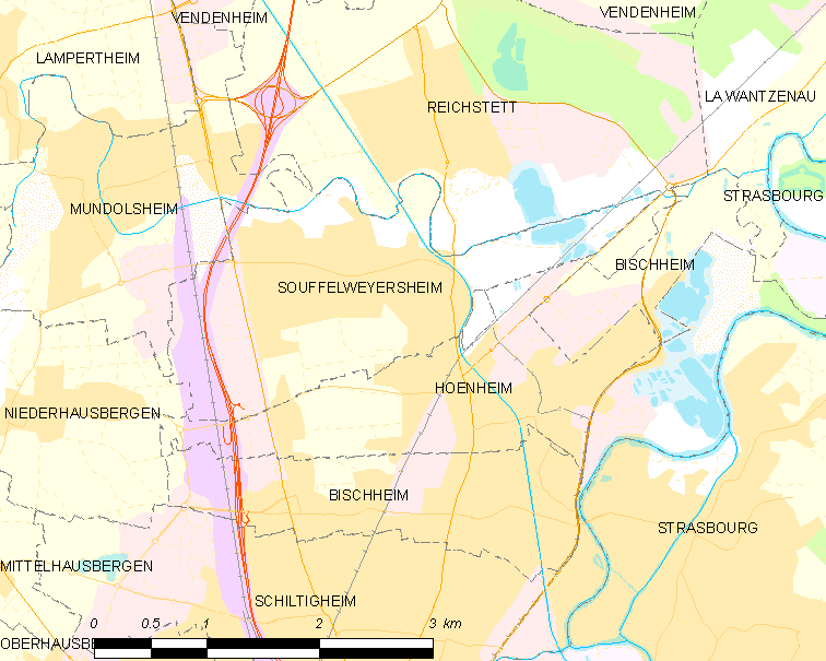 Map of French municipality